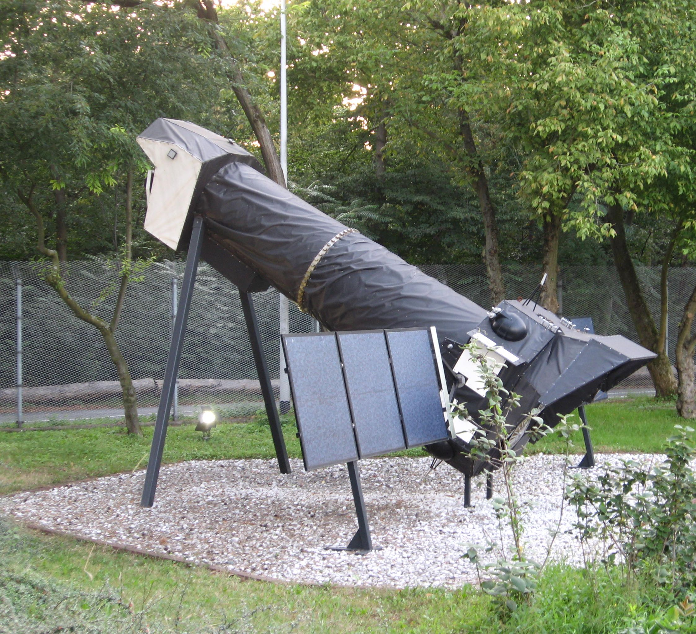 European Space Operations Centre, Darmstadt, space telescope; XMM-Newton model.